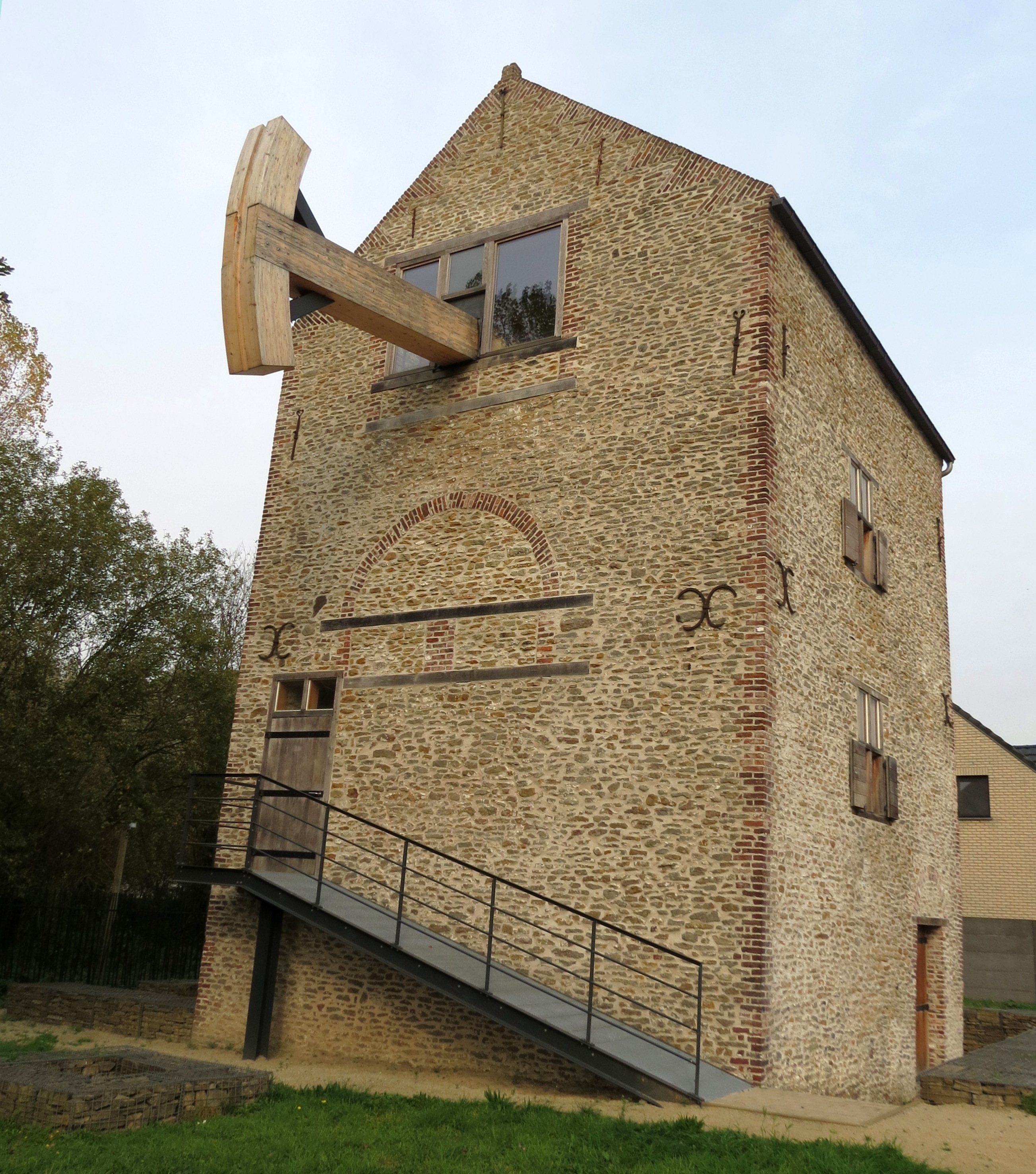 Ancient Thomas Newcomen engine building (1781) in Bernissart, Belgium